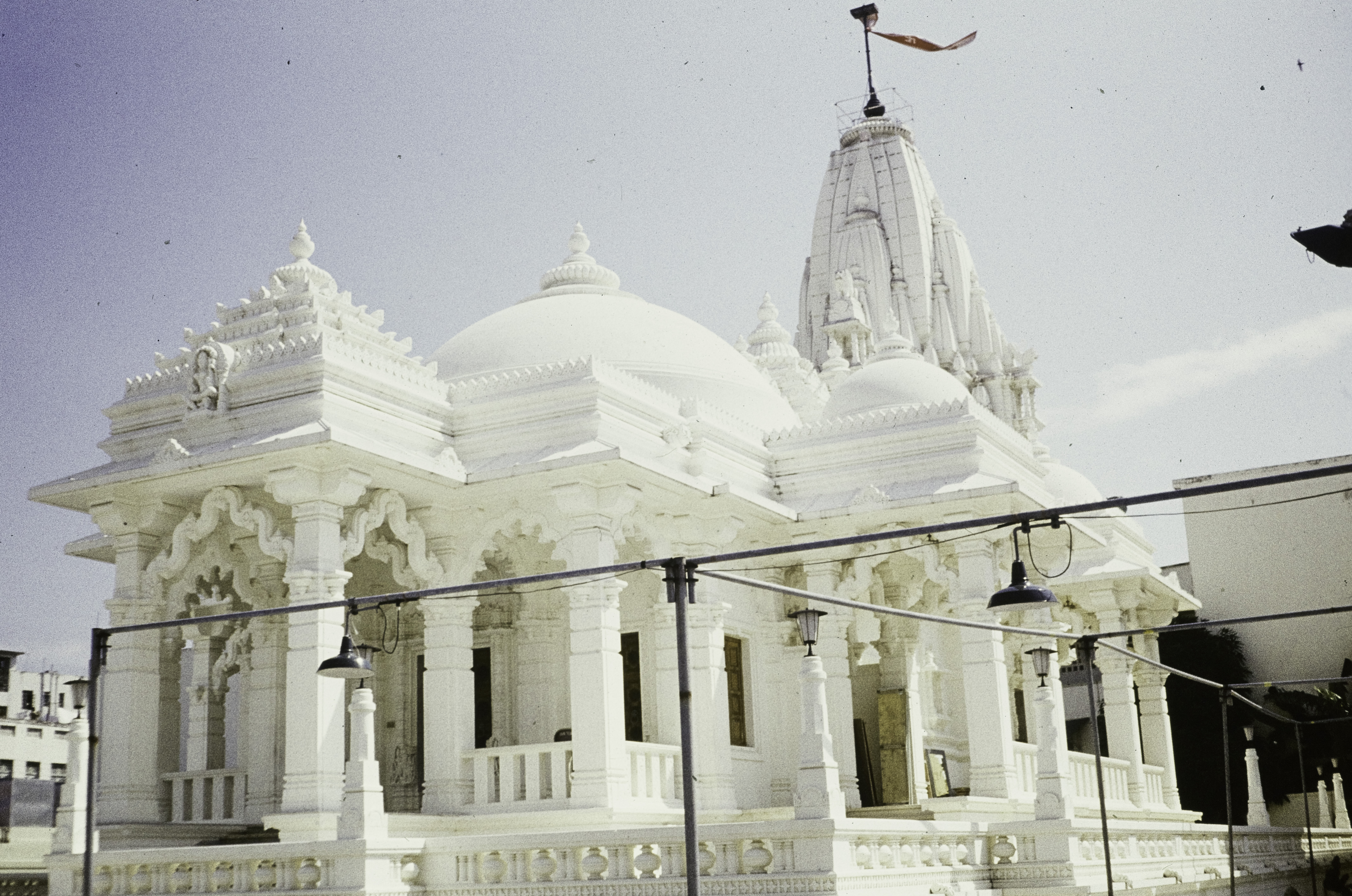 Jains Hindu temple, Mombasa. White monumental building with columns.